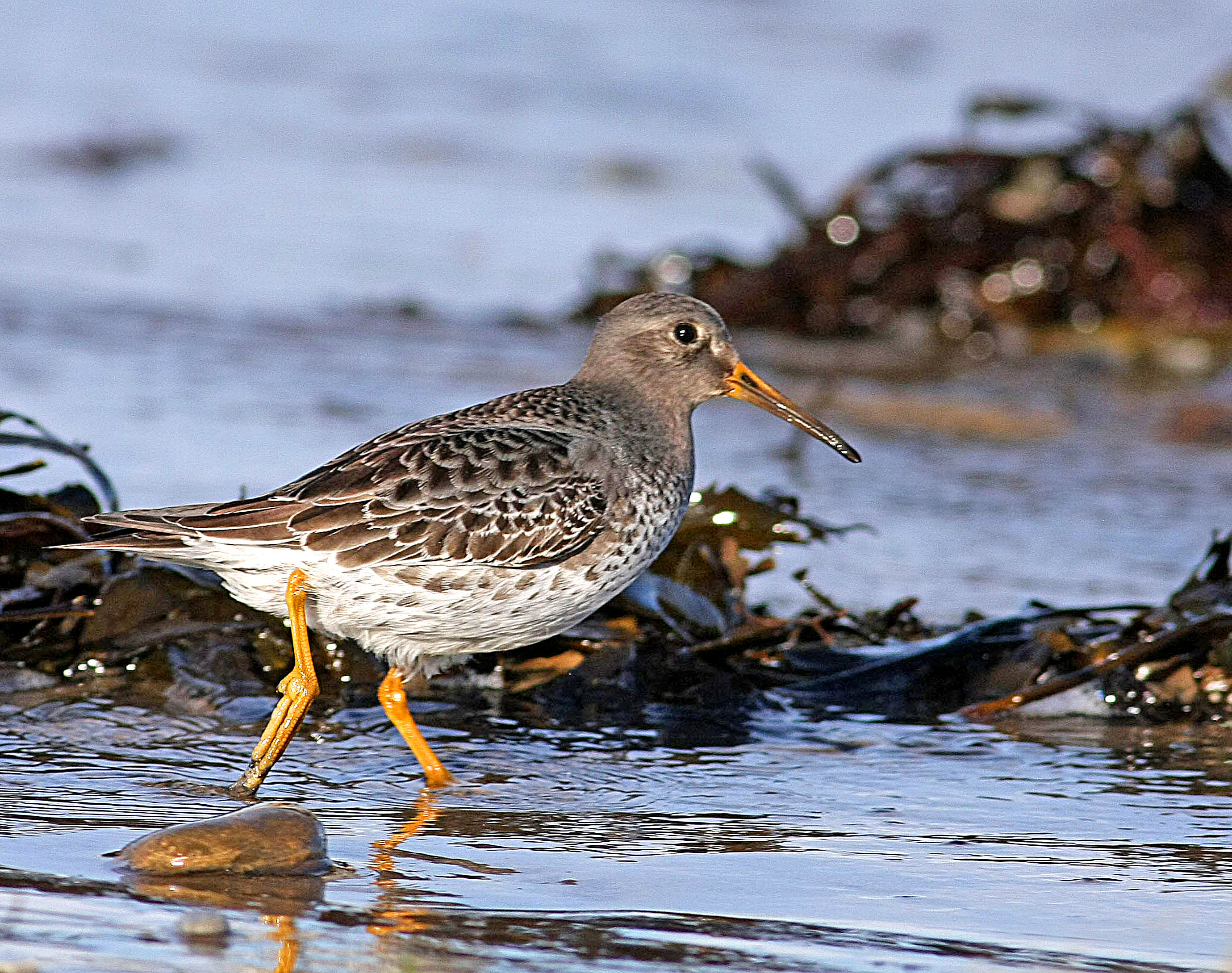 Purple Sandpiper Calidris maritima, Northumberland, UK